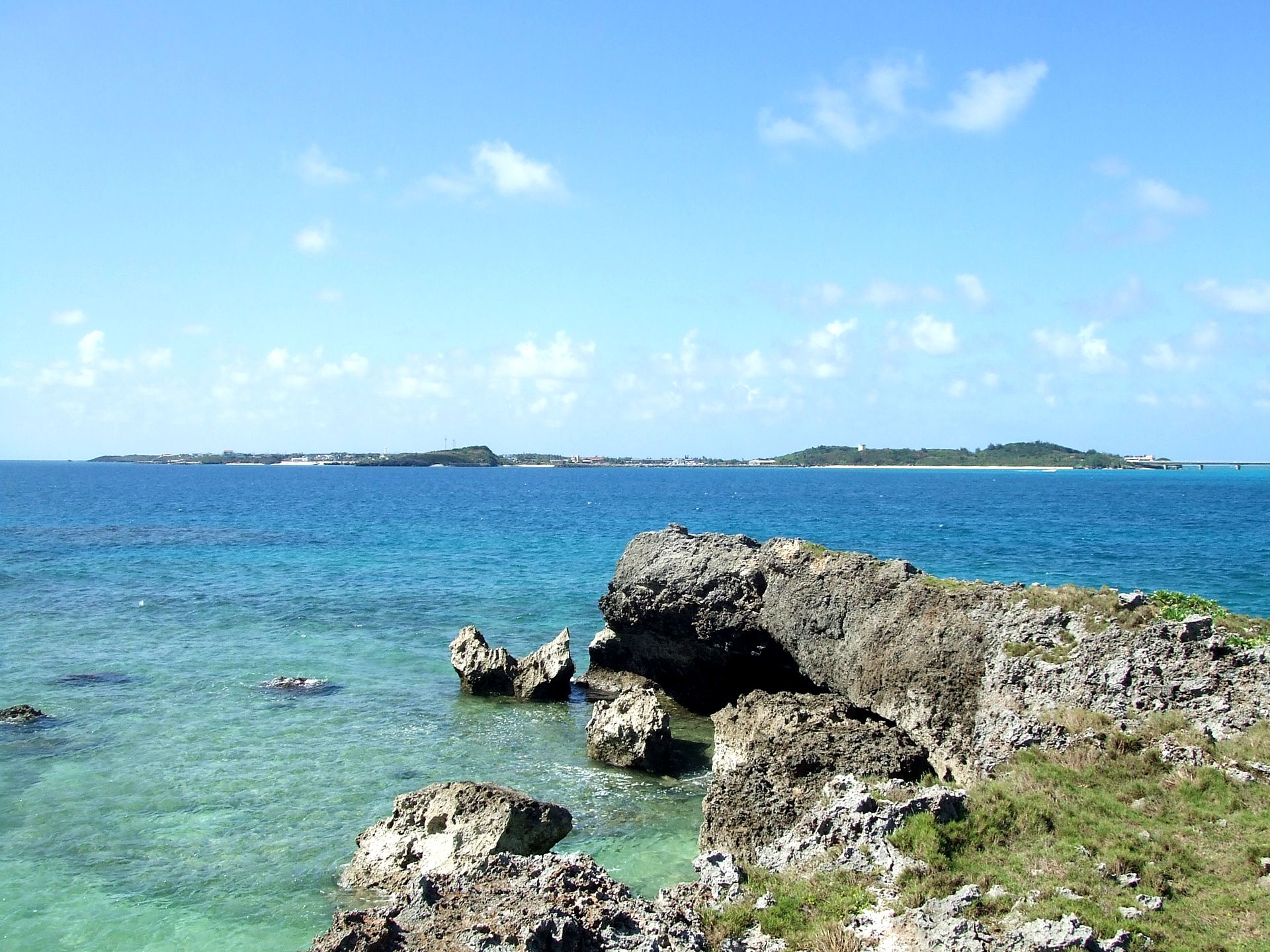 Ikema Island, located to the north of the Miyako Island, Okinawa.